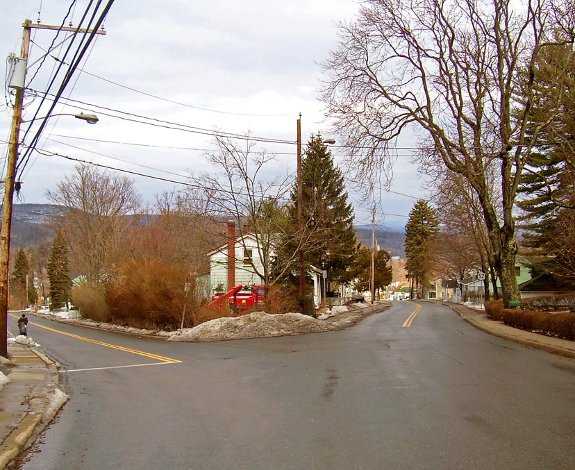 Photographed by Daniel Case 2007-03-11